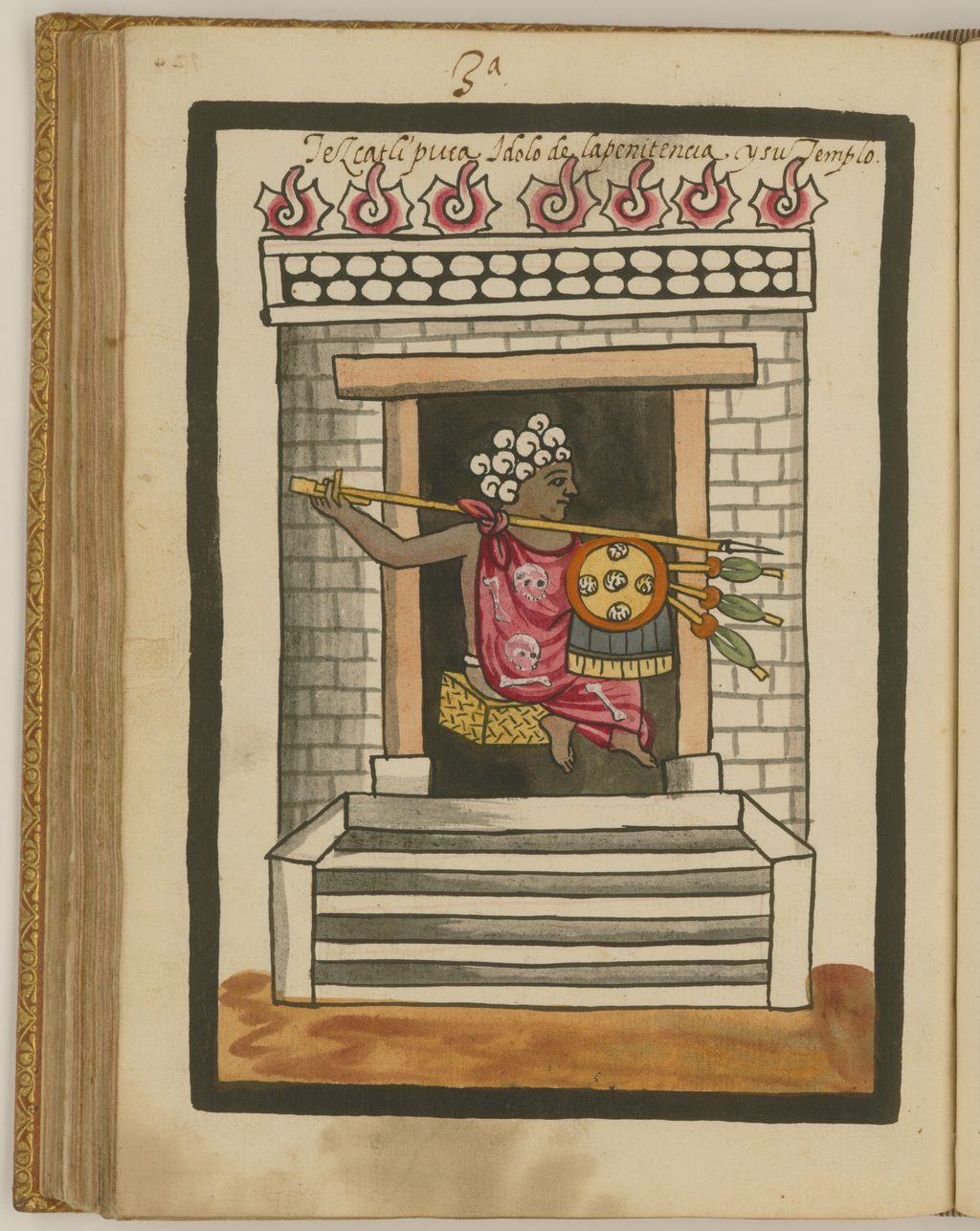 The Tovar Codex, attributed to the 16th-century Mexican Jesuit Juan de Tovar, contains detailed information about the rites and ceremonies of the Aztecs (also known as Mexica). The codex is illustrated with 51 full-page paintings in watercolor. Strongly influenced by pre-contact pictographic manuscripts, the paintings are of exceptional artistic quality. The manuscript is divided into three sections. The first section is a history of the travels of the Aztecs prior to the arrival of the Spanish. The second section, an illustrated history of the Aztecs, forms the main body of the manuscript. The third section contains the Tovar calendar. This illustration, from the second section, shows Tezcatlipoca seated on a basketwork throne in his temple. He holds a shield with the five directions of space and three arrows, as well as a spear. He wears a red cloak covered with skulls and bones and his hair contains white feathers. Tezcatlipoca (Smoking Mirror) was an omnipresent and omnipotent god, the god of the night sky and memory. Here he carries the same shield as Huitzilopochtli, the god of the sun and war. The volutes on his temple represent butterflies or fallen soldiers. White feathers were placed in the hair of sacrificial victims. Aztec gods; Aztecs; Codex; Indians of Mexico; Indigenous peoples; Mesoamerica; Temples; Tovar Codex